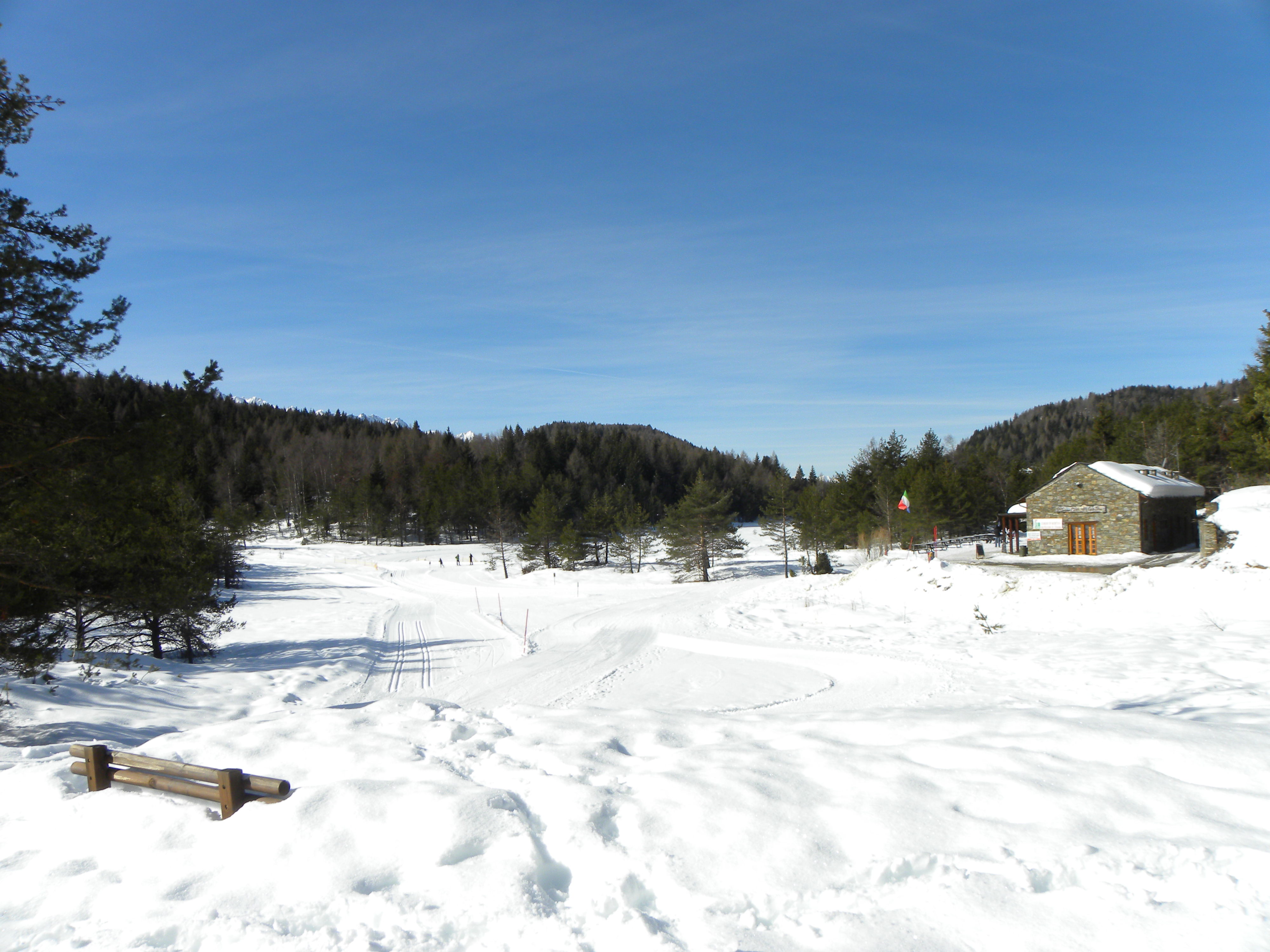 A panoramic view of Pian di Gembro - City of Villa di Tirano (SO), Italy